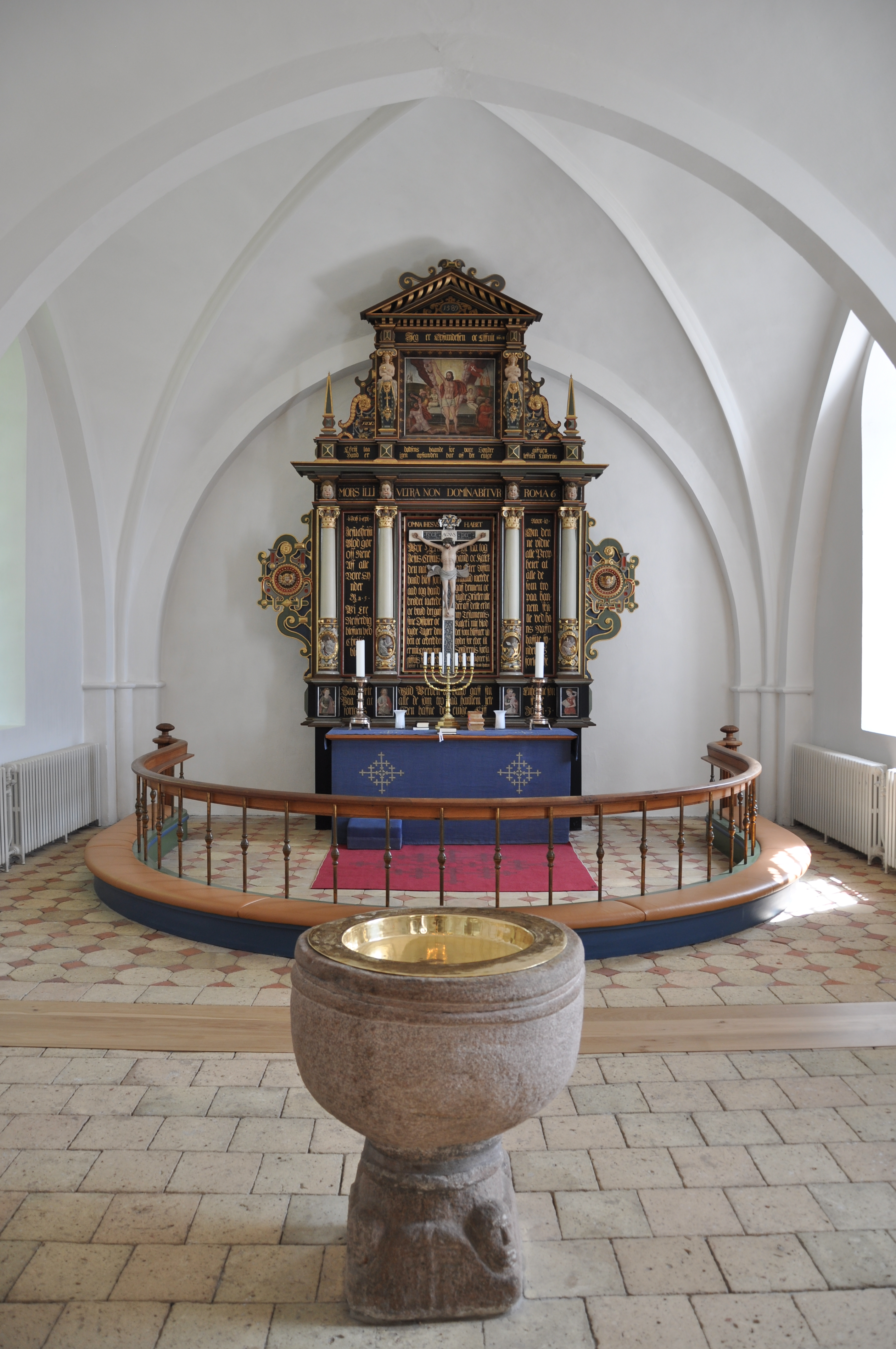 Altar and font of Besser Church (Samsø Municipality, Denmark).